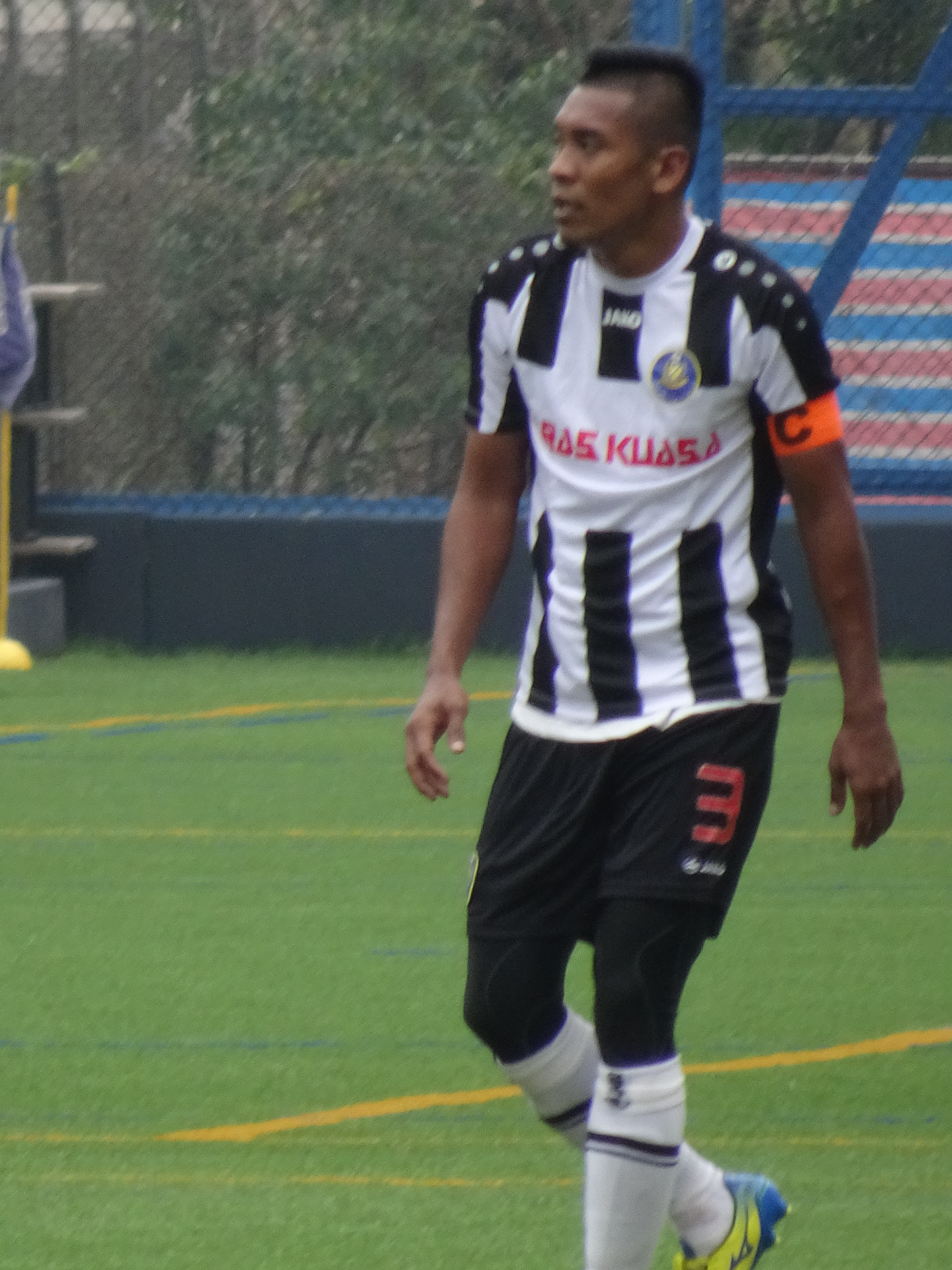 Saiful Nizam Miswan (23 Mar 2017, Kitchee vs Pahang FA, Friendly, Jockey Club Kitchee Centre)